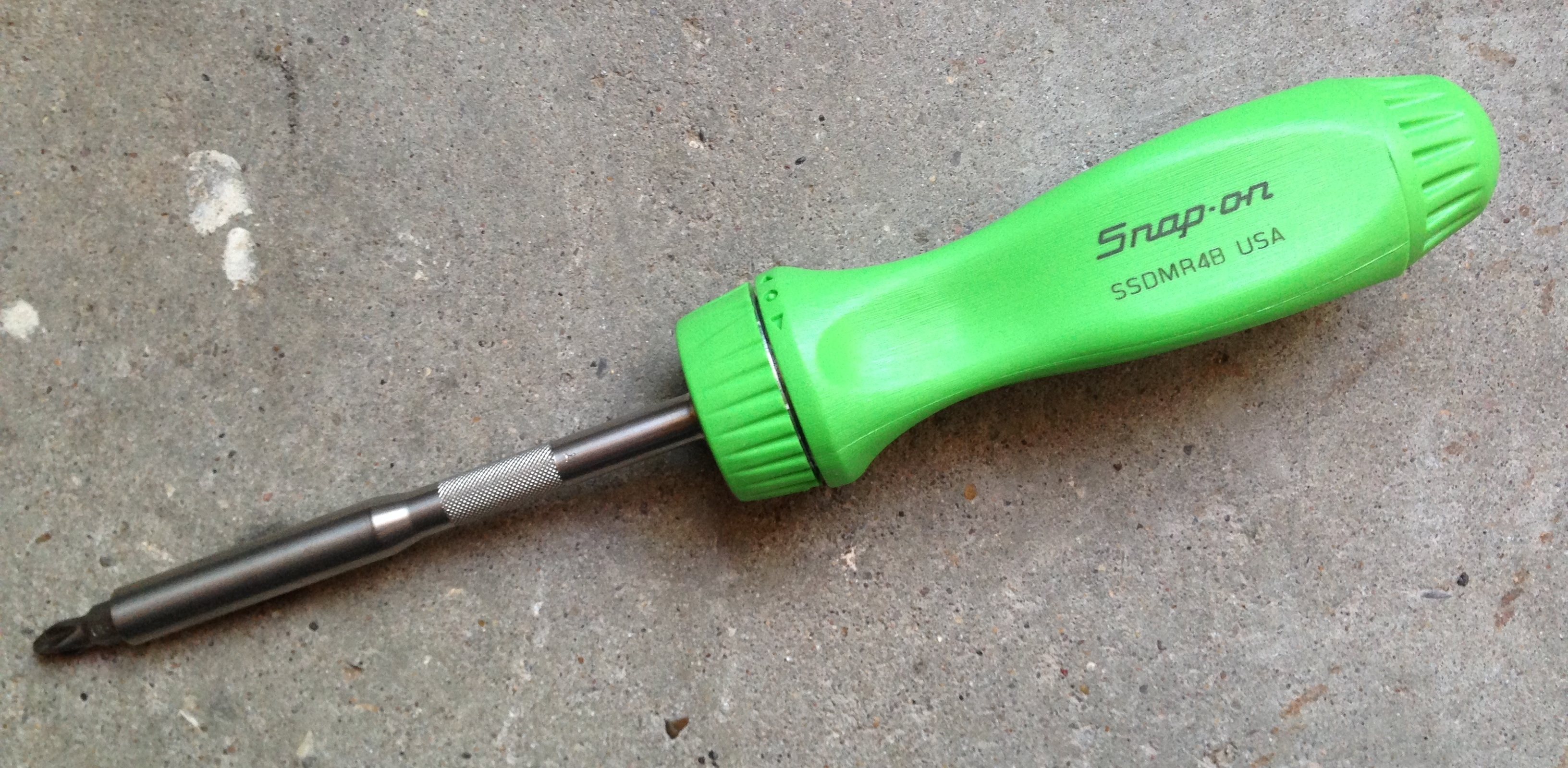 A Snap-on ratcheting screwdriver. This one is lime green, but they came in a variety of colors.